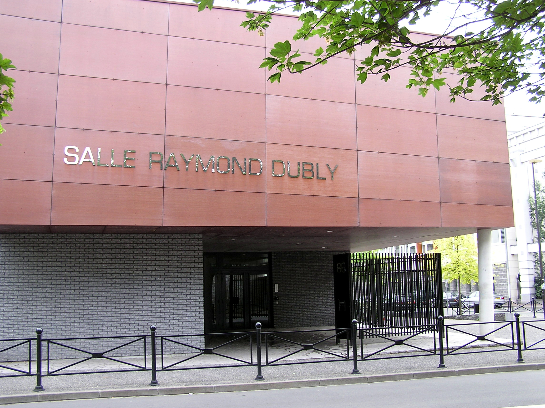 The sport center Salle Raymond Dubly in Roubaix, France named for the local football star and national team player Raymond Dubly